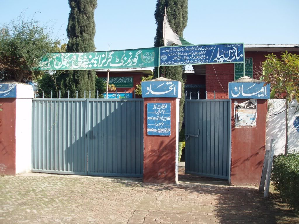 GirlsMiddleSchool